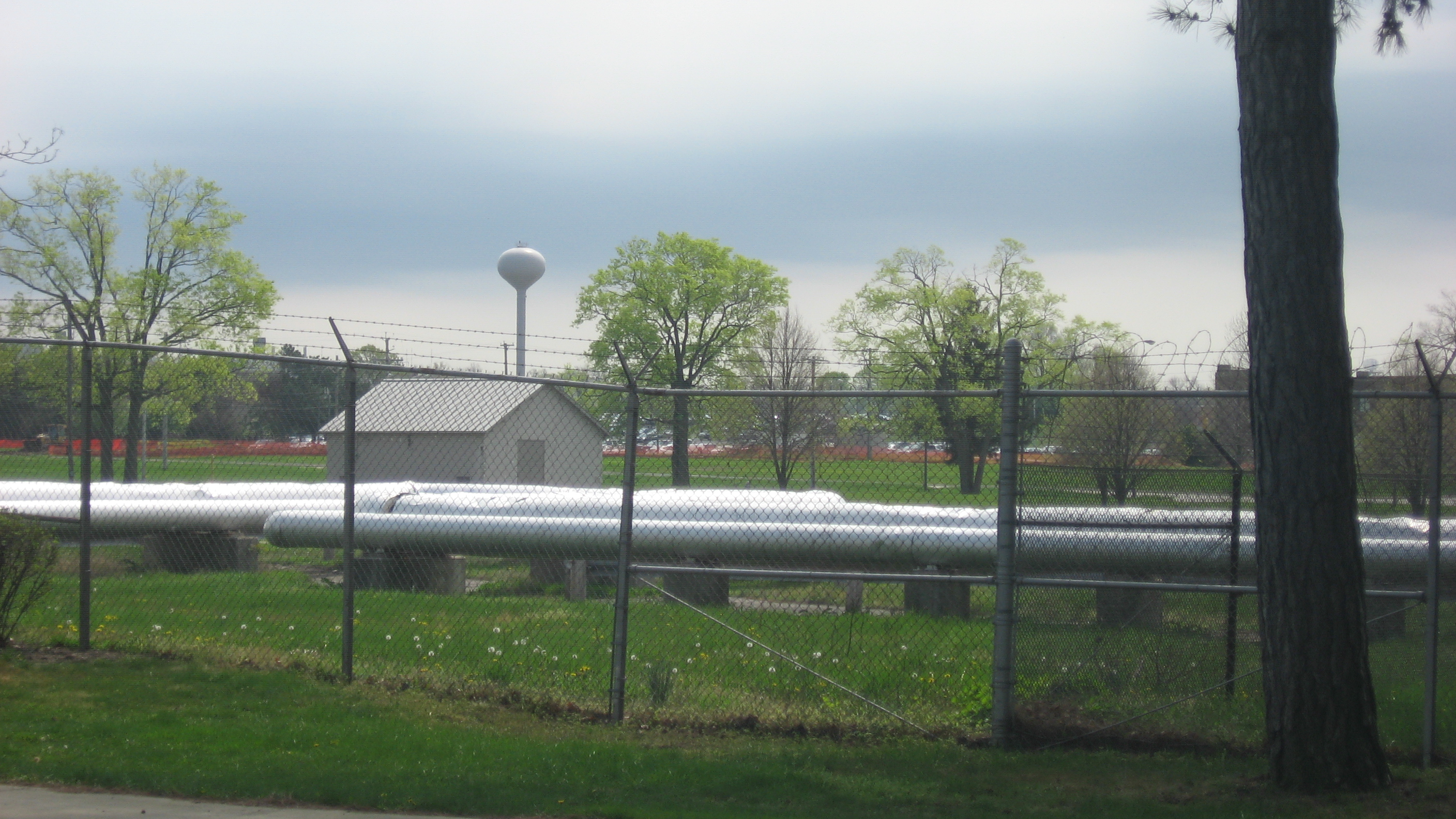 Terrain on a small southern portion of Wright-Patterson Air Force Base, seen from the visitor center at the Wright Brothers Memorial near Huffman Prairie. In the distance, although not presently visible, is the Wright-Patterson Air Force Base Mound; built by the Adena culture, it is an important archaeological site and listed on the National Register of Historic Places.